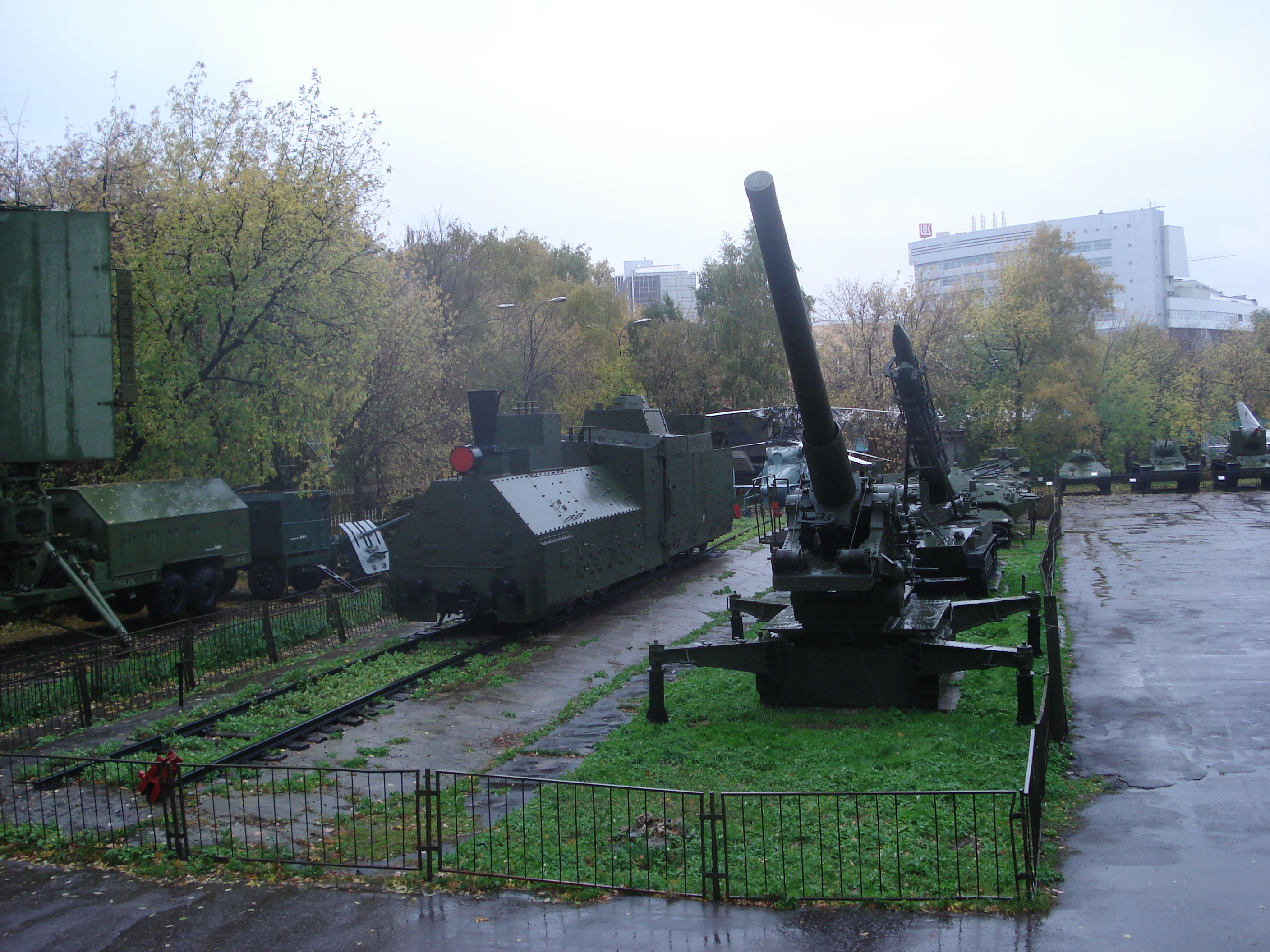 External exhibits Central Armed Forces Museum Moscow including armored locomotive Ov 5067